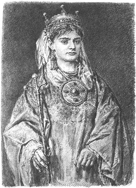 Richensa of Lotharingia